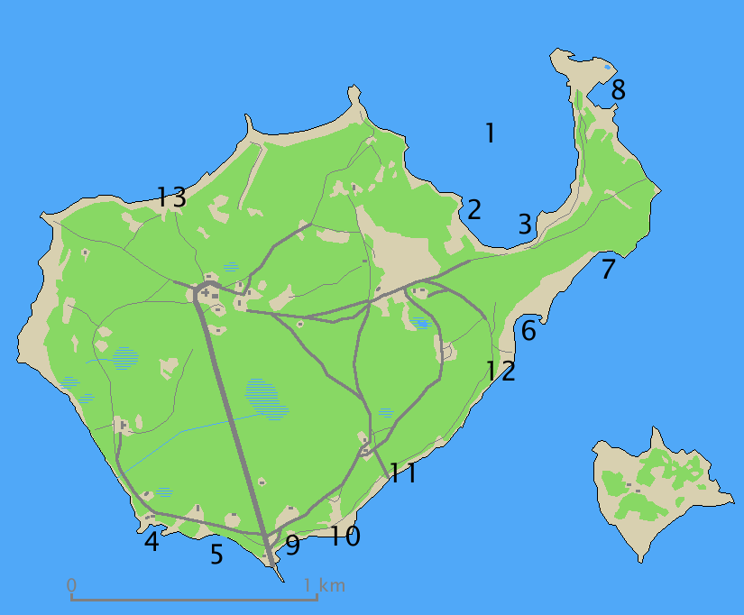 Aegna bays